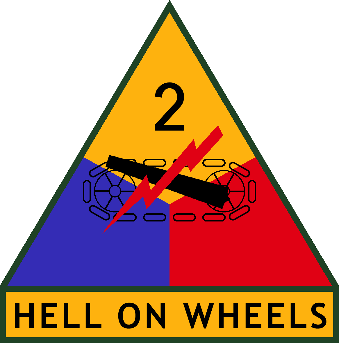 US Army 2nd Armored Division Shoulder Sleeve Insignia